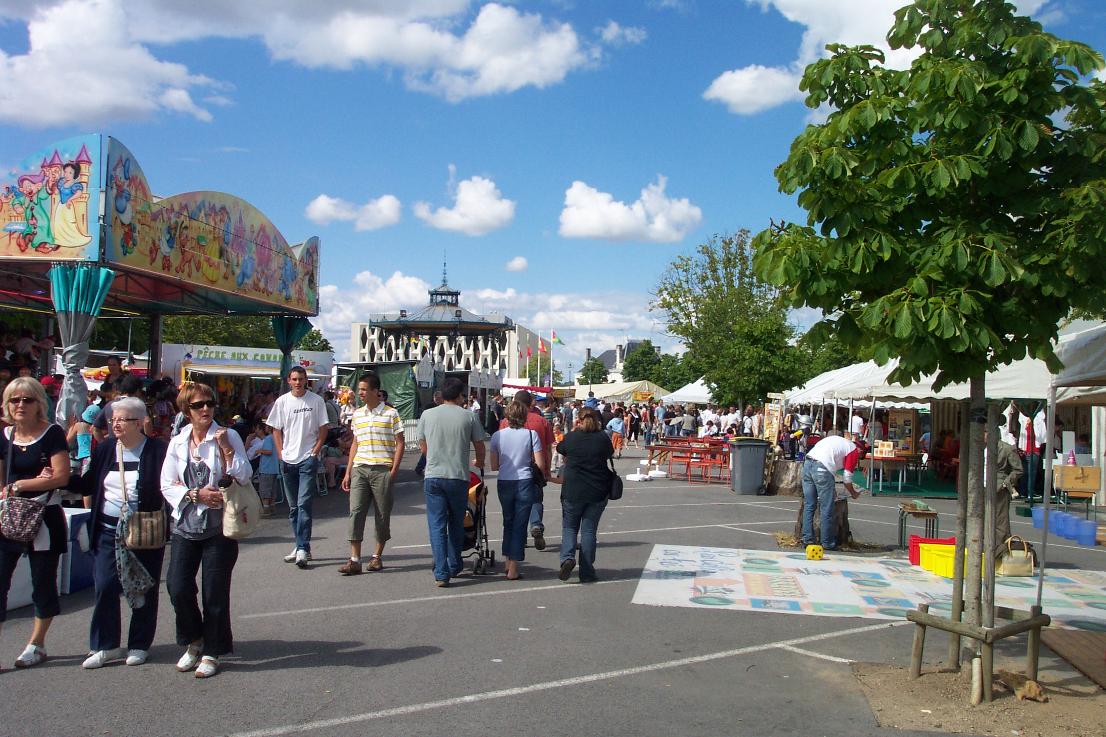 The Place du Drapeau in the French town of Parthenay during the Festival Ludique International de Parthenay of 2008. For more information, see the Wikipedia articles Parthenay and Festival Ludique International de Parthenay.